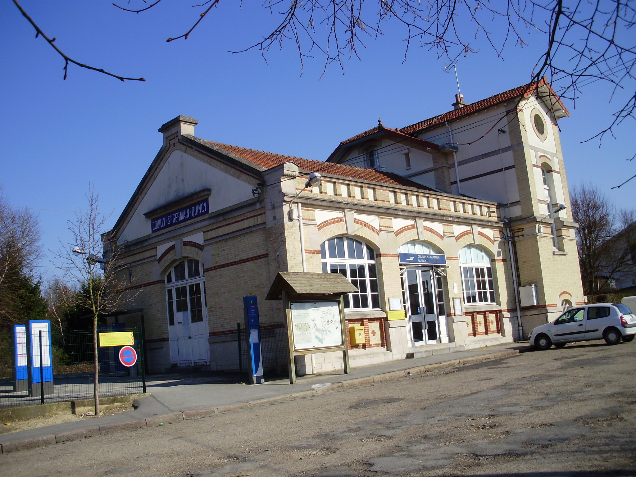 Couilly - Saint-Germain - Quincy station - Station square, Seine-et-Marne, France